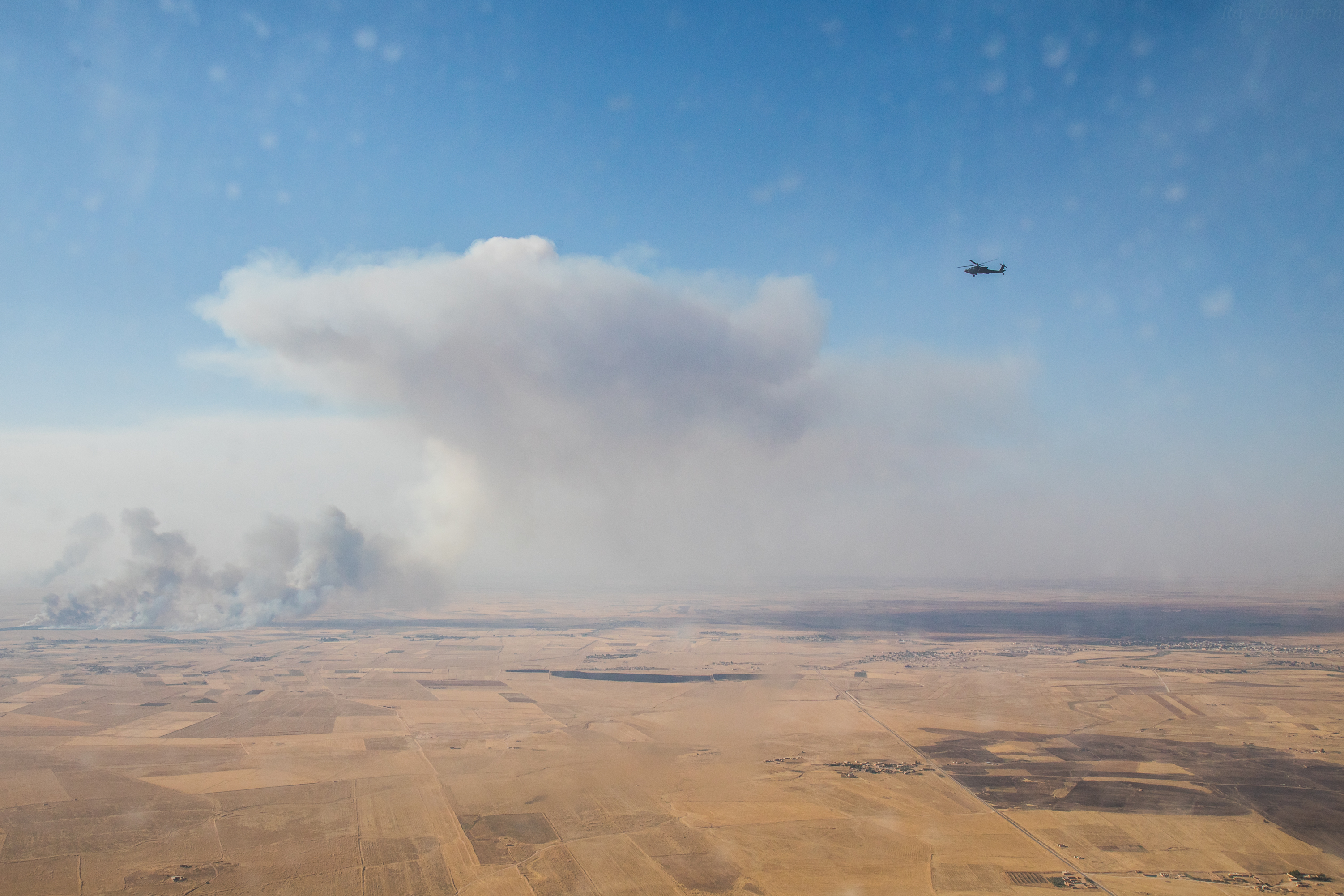 A Coalition Forces AH-64 Apache attack helicopter escorts a CH-47 Chinook during a transport mission in northeastern Syria, Jun. 22, 2019. Coalition Forces continue to train, assist, and advise partner forces, and both continue to create space and time for diplomatic, informational and economic efforts to increase regional stability.